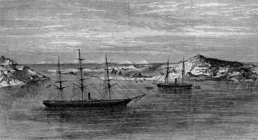 The "Polaris" and "Congress" at Godhaven, Disco Island, off the Coast of Greenland, a wood engraving from Harper's Weekly, May 1873. USS Congress (left) arrived at Disco Island on August 10, 1871 carrying extra supplies for Charles Francis Hall's Arctic expedition aboard Polaris, which steamed away on August 17.